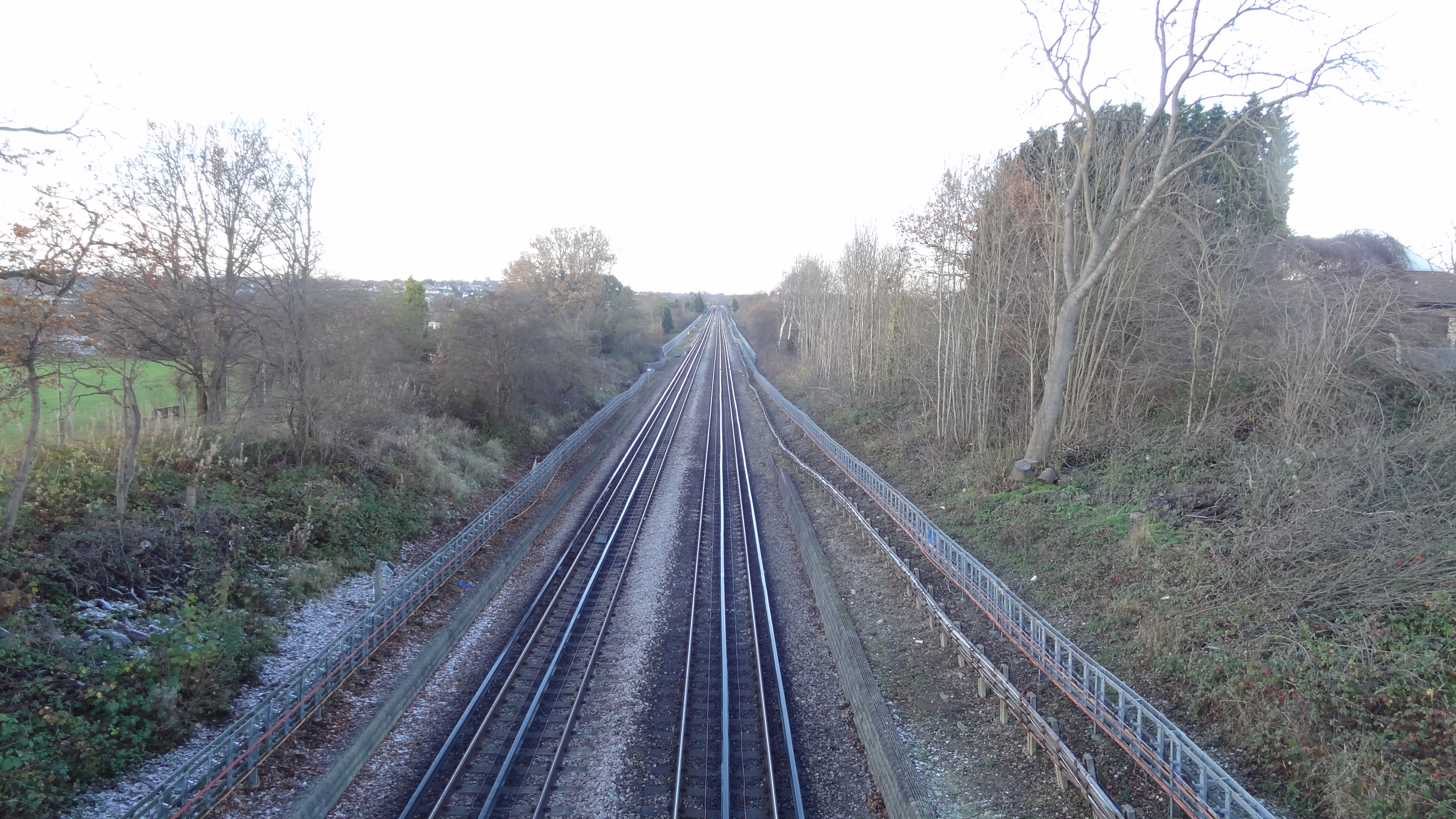 Northern Line railway embankment from a footbridge between Walfield Avenue and Wyatts Farm Open Space, near High Barnet, London. The embankment is classified as a Site of Importance for Nature Conservation, Grade II.